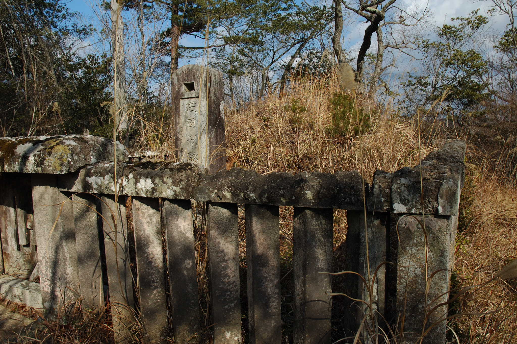 grave of Ikeda Toshimasa in Nana-no-oyama